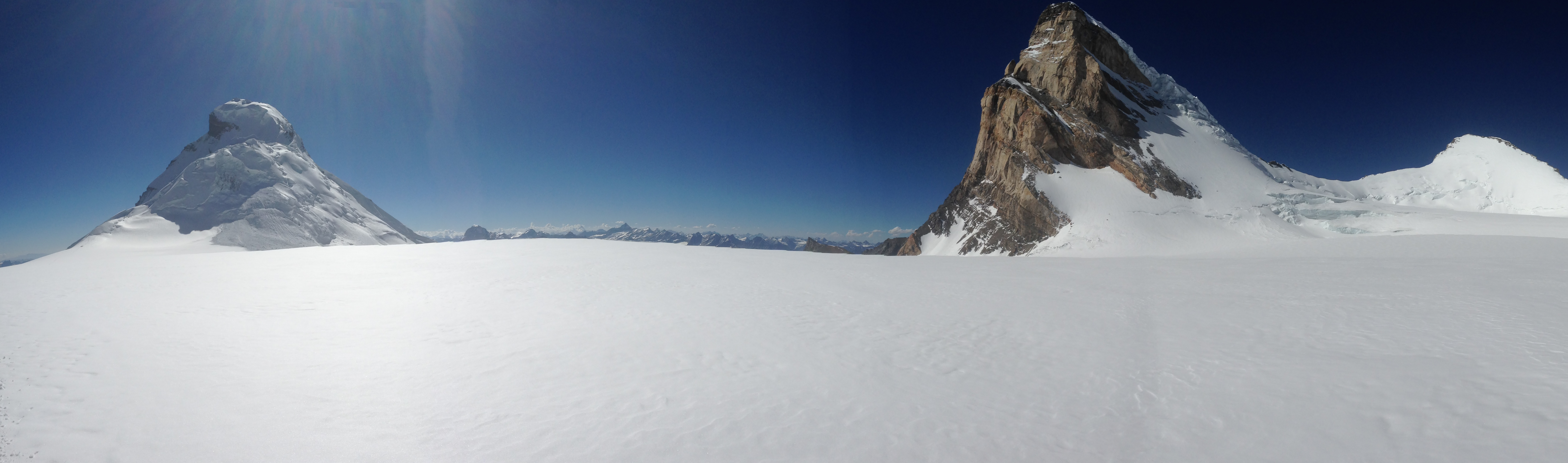 This picture was taken from somewhere in between camp 2 and camp 3 while climbing Kun.The peak on the far left is Nun(7135m),the peak in the centre is Kun(7077m) and the peak on far right is Pinnacle peak(6930m).